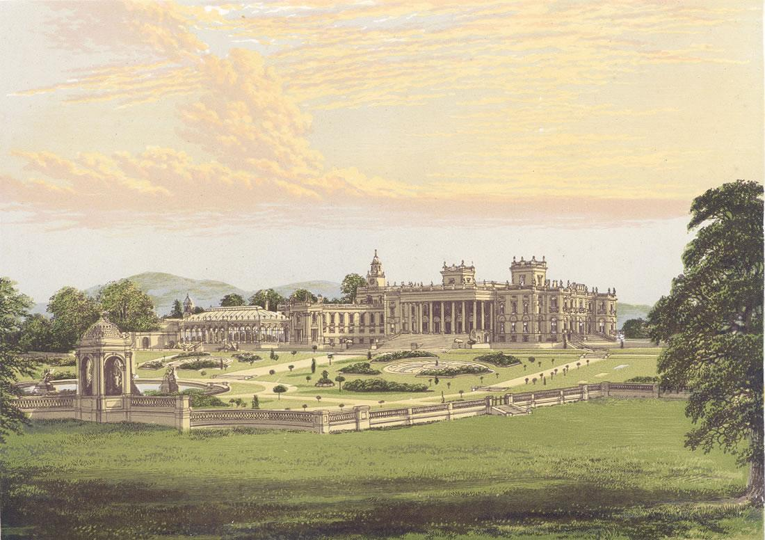 watercolor of Witley Court with the gardens as designed by William Andrew Newfield